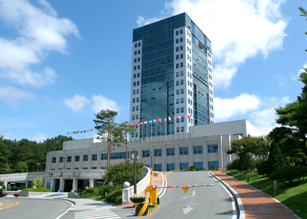 Daegu University Seong-san hall